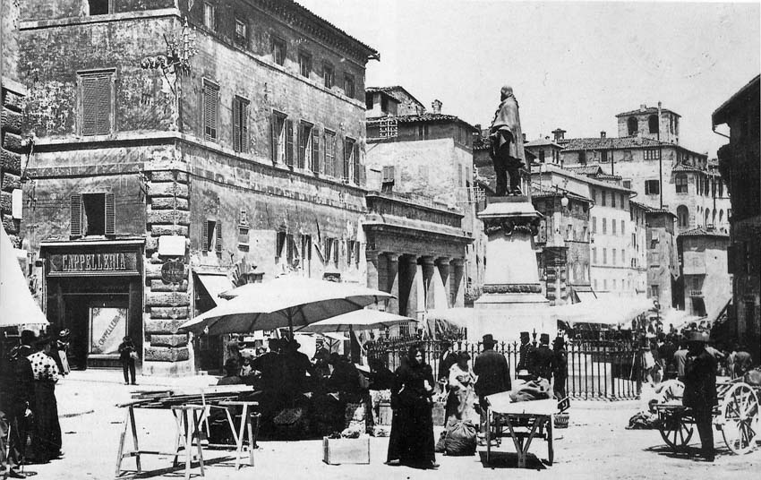 Former site of the Biblioteca Augusta (library) in the Palazzo Meniconi on the Piazza del Sopramuro, now Piazza Matteotti